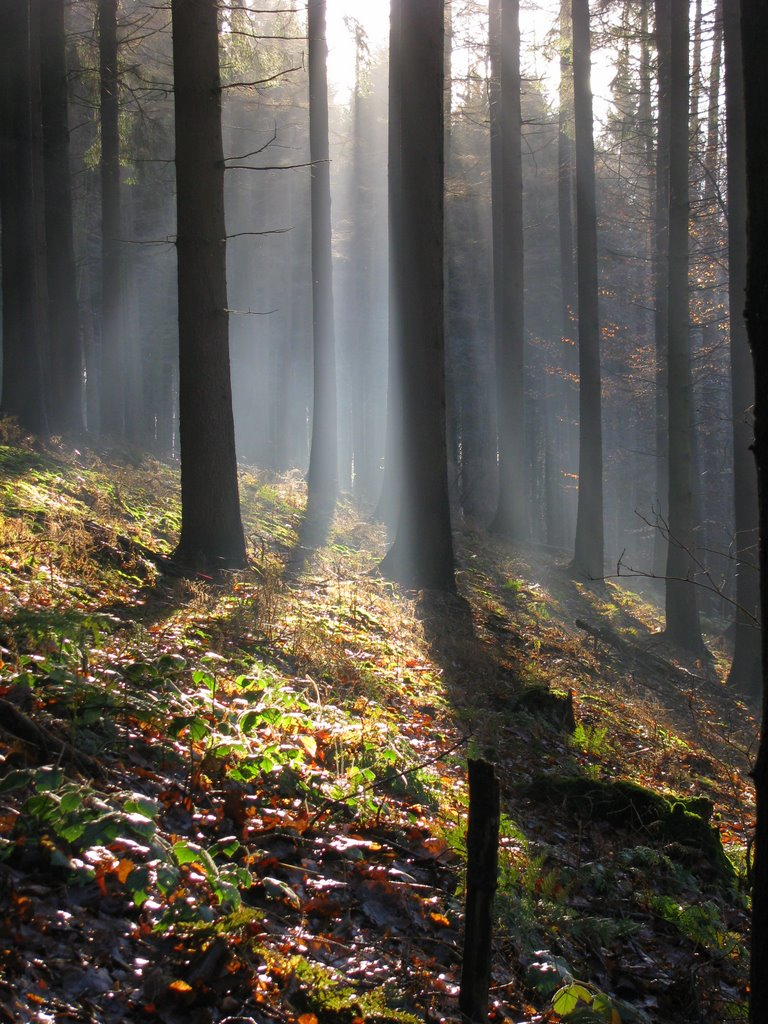 Winter, Hallerbos, Belgium